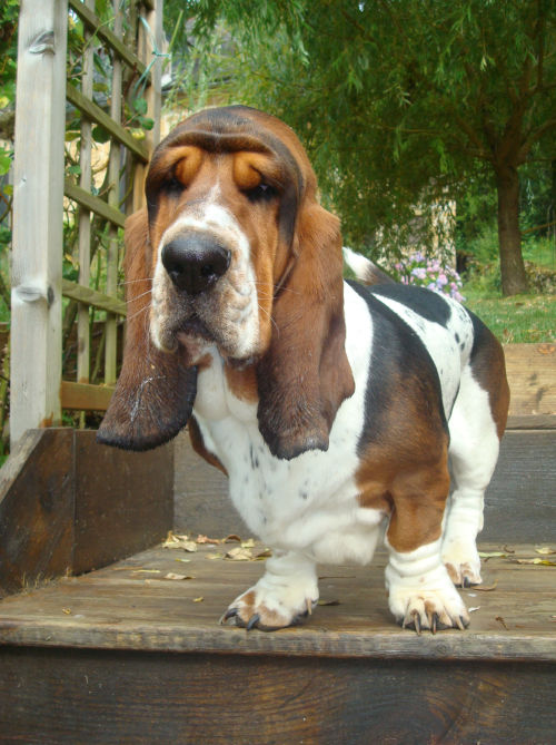 basset hound, 2 years, Constable MacArthur de la cle du verne in his pedigree called "Grussgott"